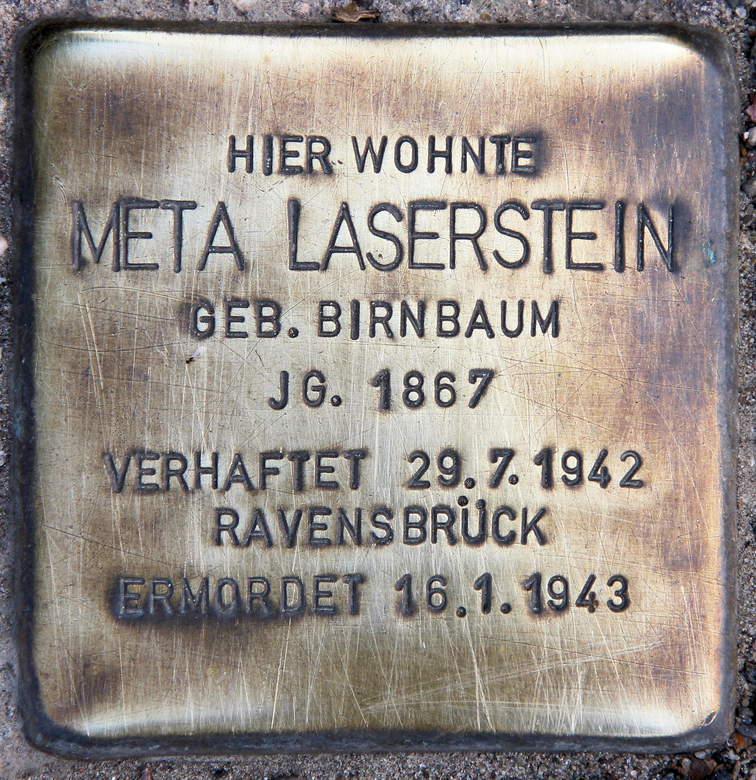 "Stolperstein" (stumbling block), Meta Laserstein, Immenweg 7, Berlin-Steglitz, Germany